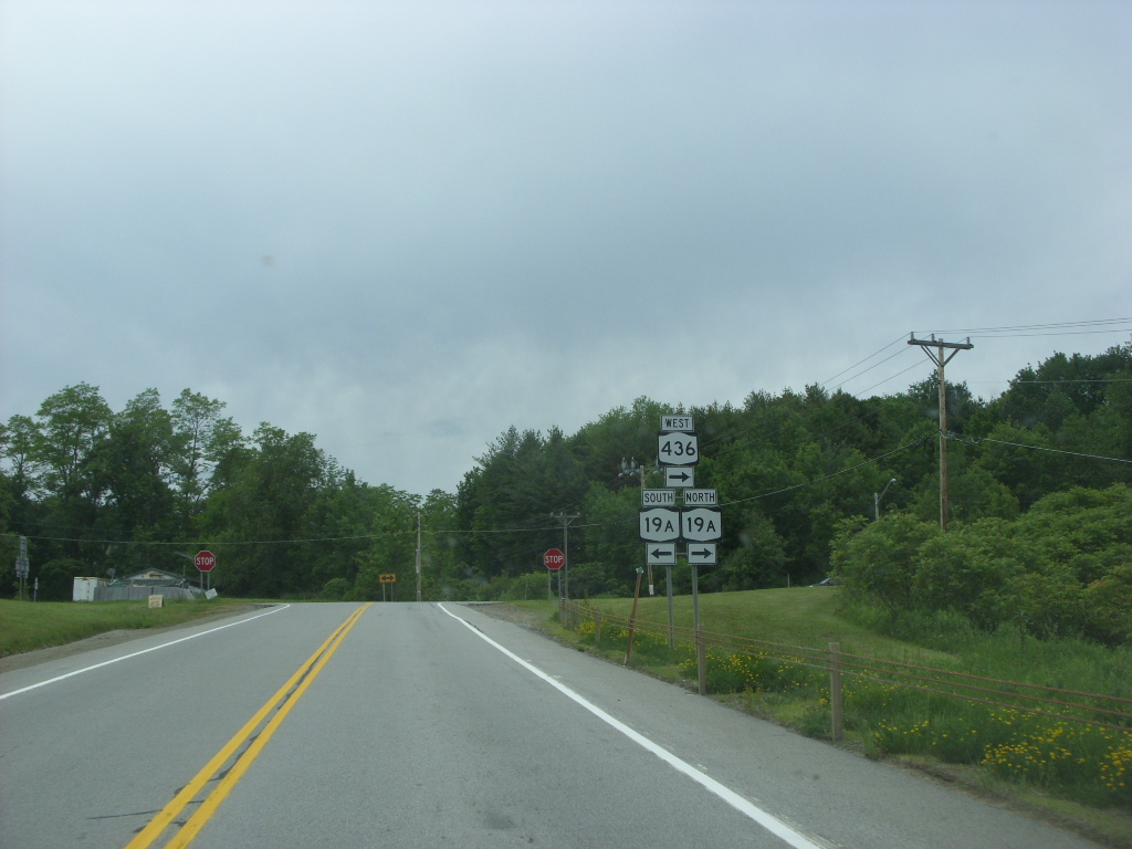 Approaching New York State Route 19A on New York State Route 436 westbound in Portageville. This junction serves as the southern terminus of an overlap between the two routes.